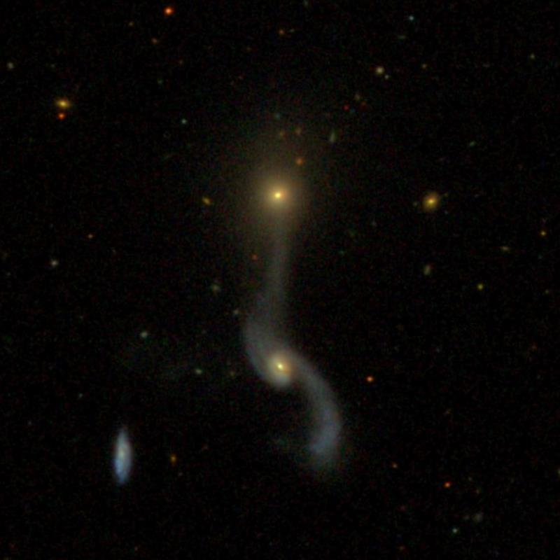 Angle of view: 4' × 4' (0.3" per pixel), north is up.